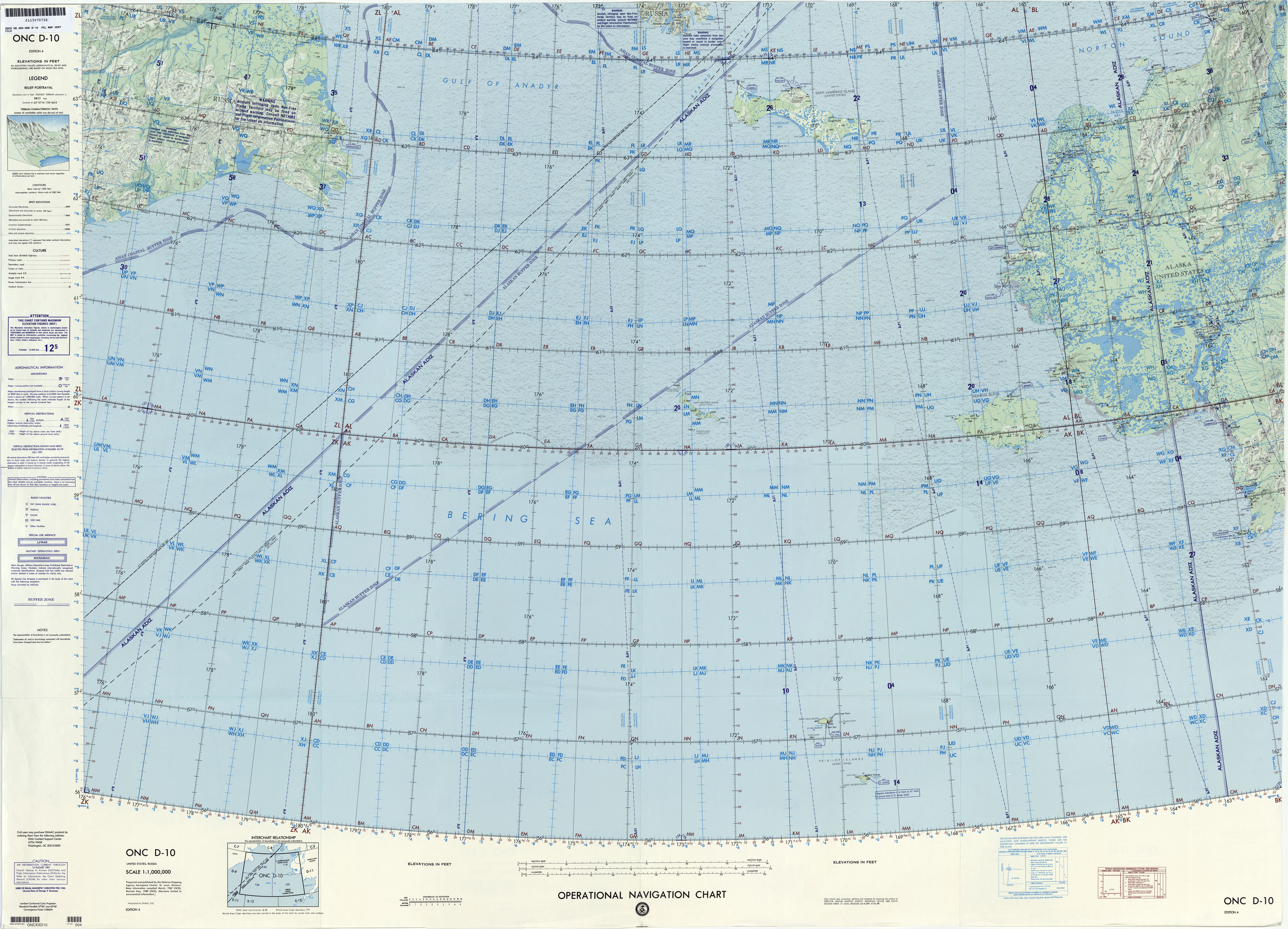 1:1,000,000 scale Operational Navigation Chart, Sheet D-10, 4th edition. Covers Alaska, Russia. Lambert Conformal Conic Projection.